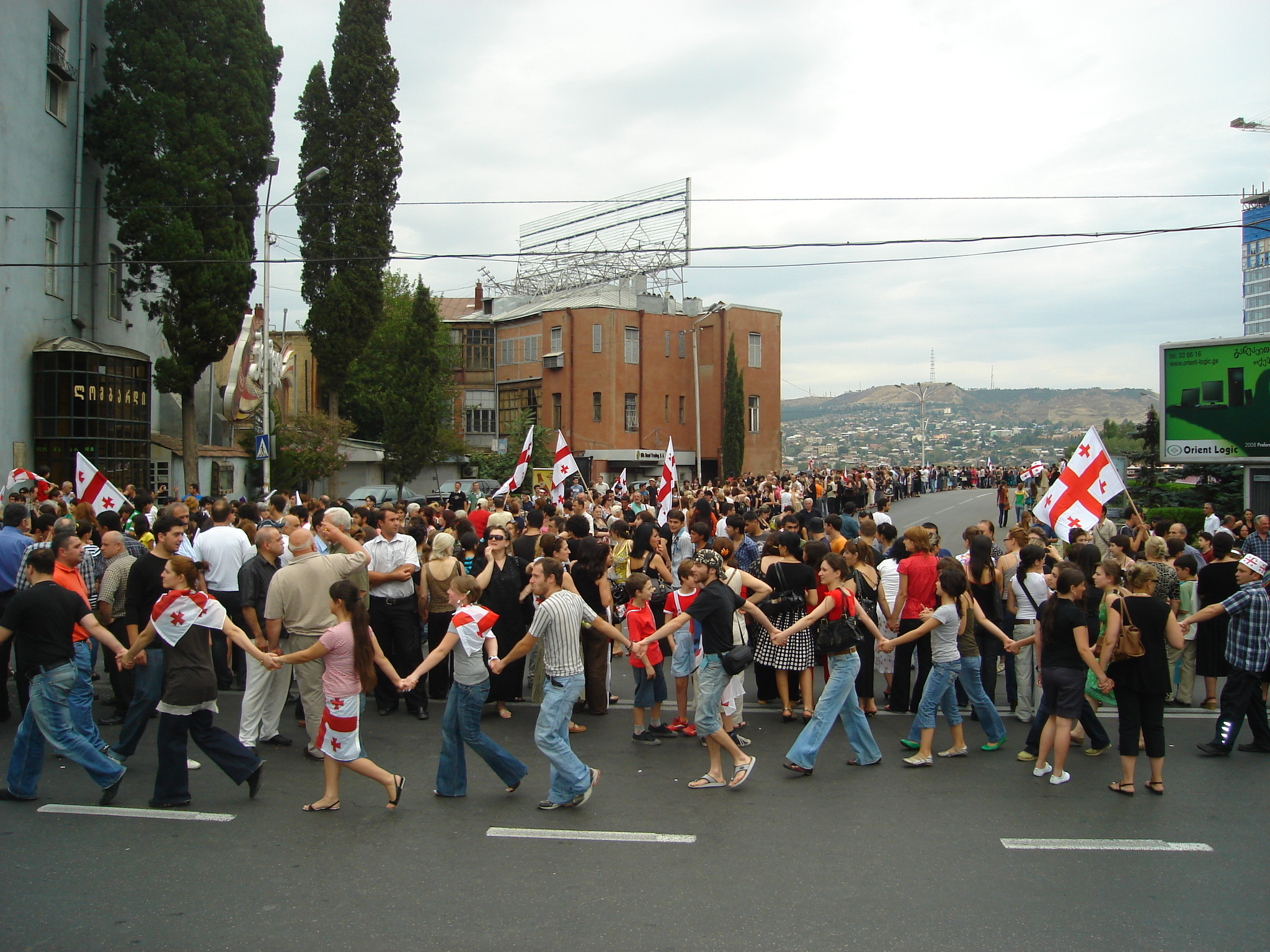 A human chain in downtown Tbilisi during the mass demonstrations against Russia's intervention in Georgia.